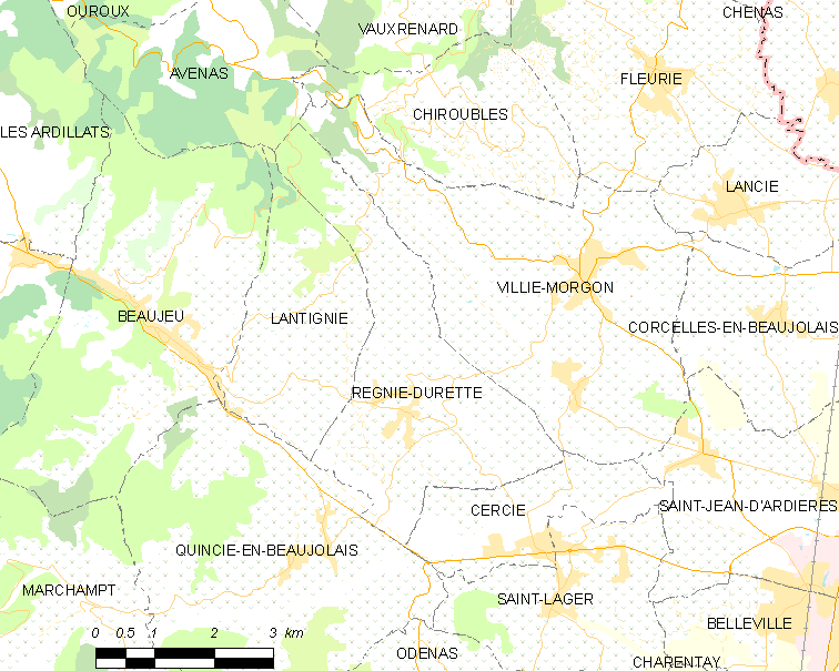 Map of French municipality